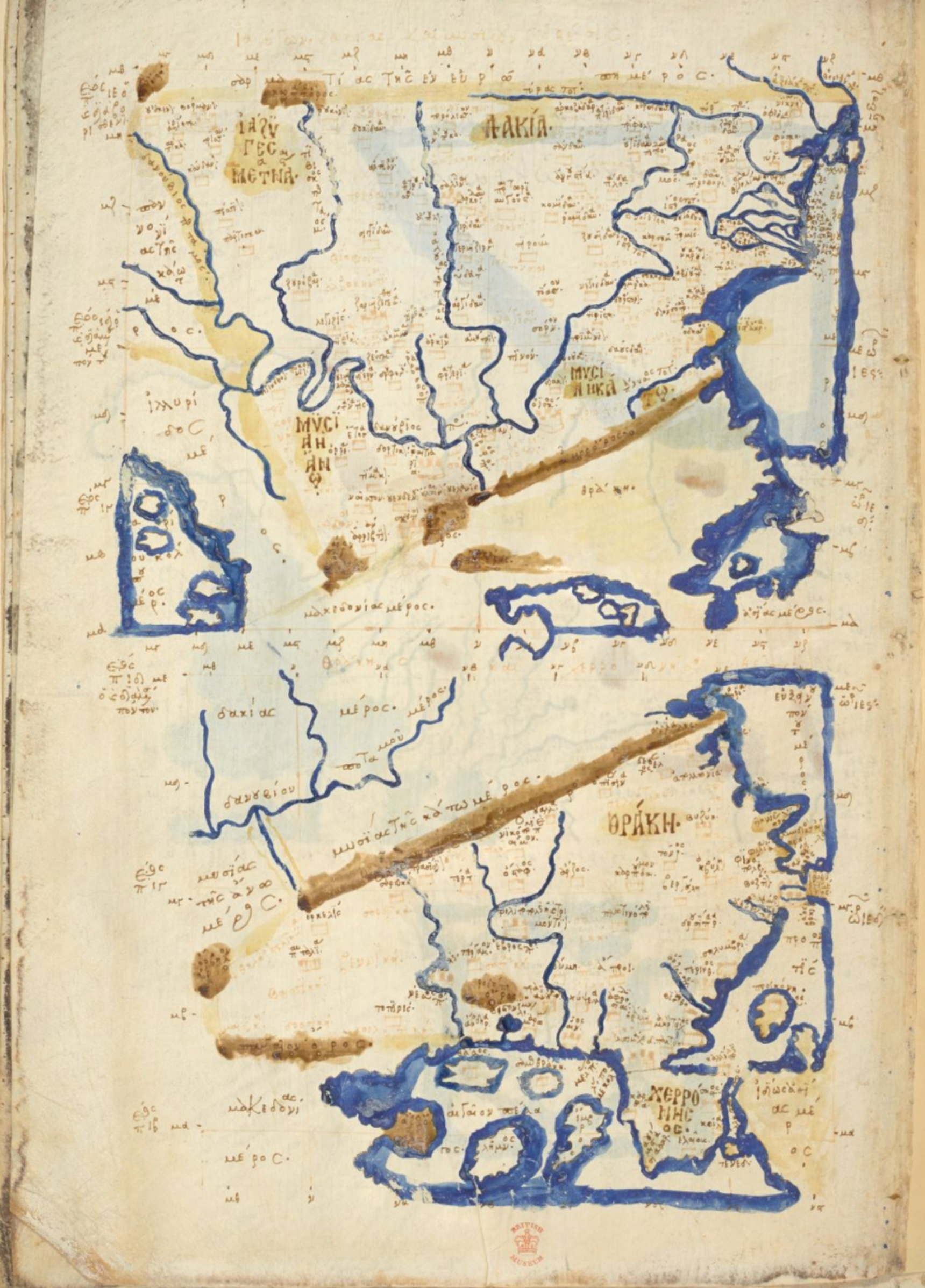 The Ninth European Map (in two parts) from a Greek manuscript edition of Ptolemy's Geography, depicting the Wandering Iazyges, Dacia, Upper and Lower Moesia (mislabeled as Mysia), and ThraceἈρχαία ἑλληνικὴ: Ἰαζύγων, Δακίας, και Μυσιων Δΰο Θέσις / Θράκης κὰι Χερρονήσου Θέσις: Ἰάζϋγεσ Μετανασται, Δακία, Μϋσΐα ἡ Ἄνων κὰι ἡ Κάτων, Θράκη, κὰι Χερρόνησος